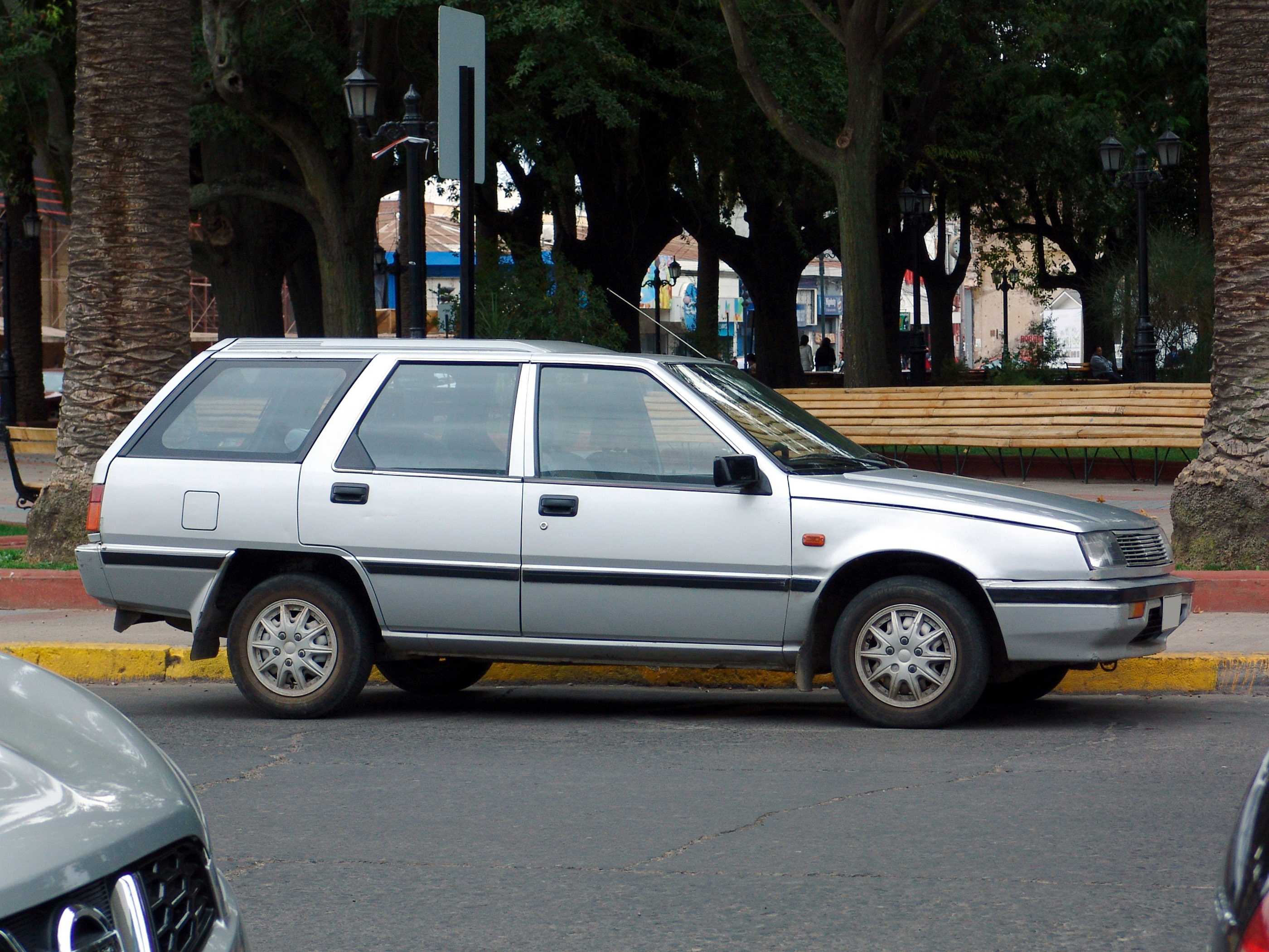 Mitsubishi Lancer 1.5 Wagon 1990